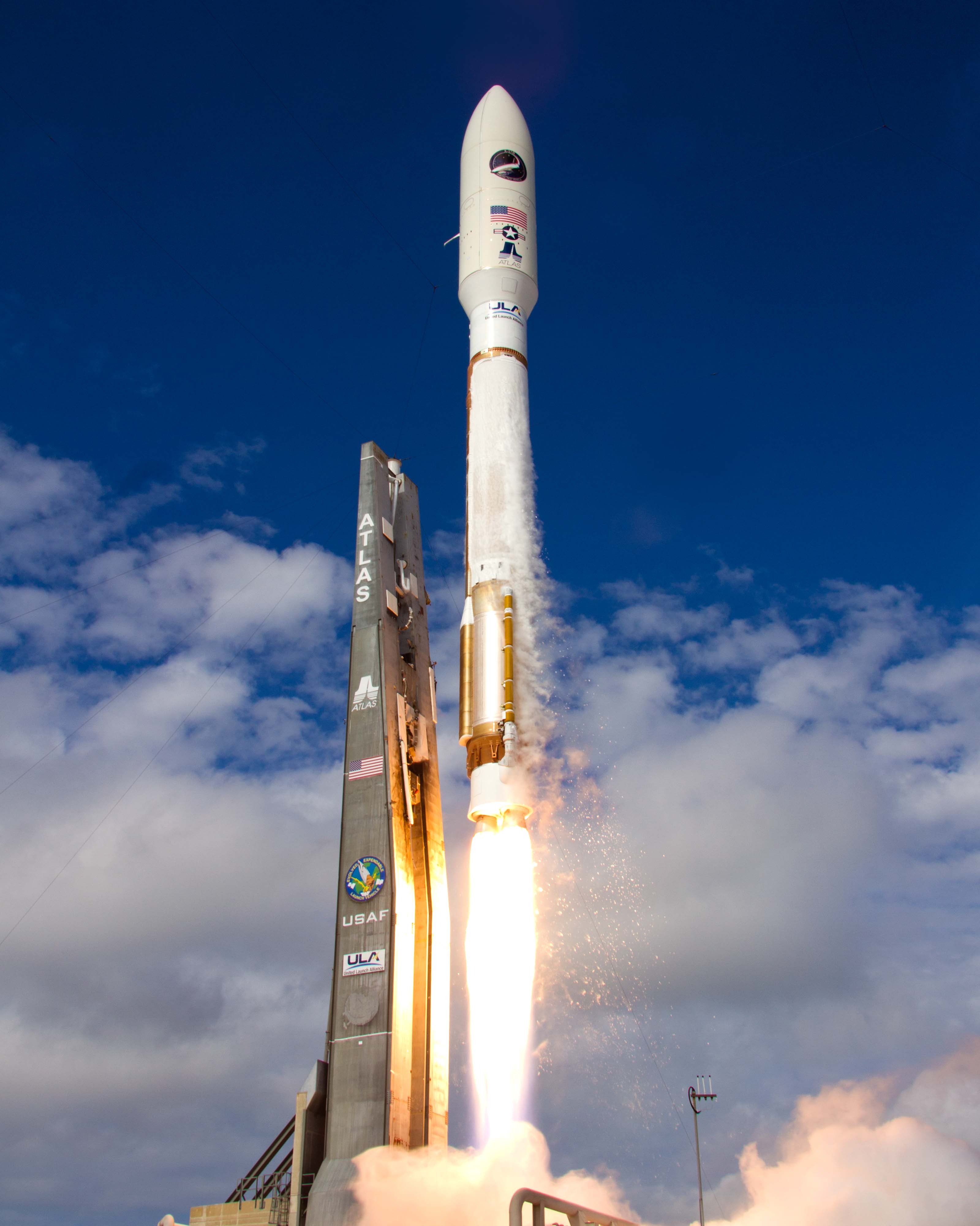 United Launch Alliance Atlas V Rocket successfully launching the OTV-3 for the U.S. Air Force.